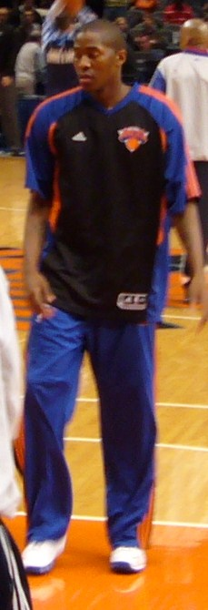 New York Knicks players David Lee and Jamal Crawford warm up before a game.